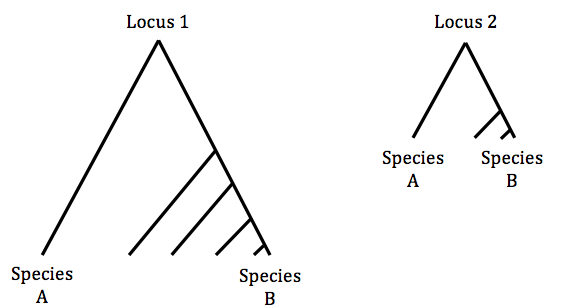 See HKA Test Page